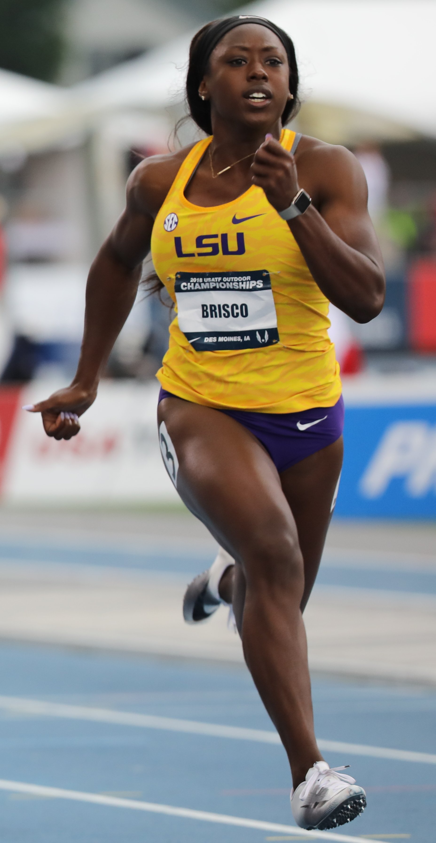 2018 USA Outdoor Track and Field Championships